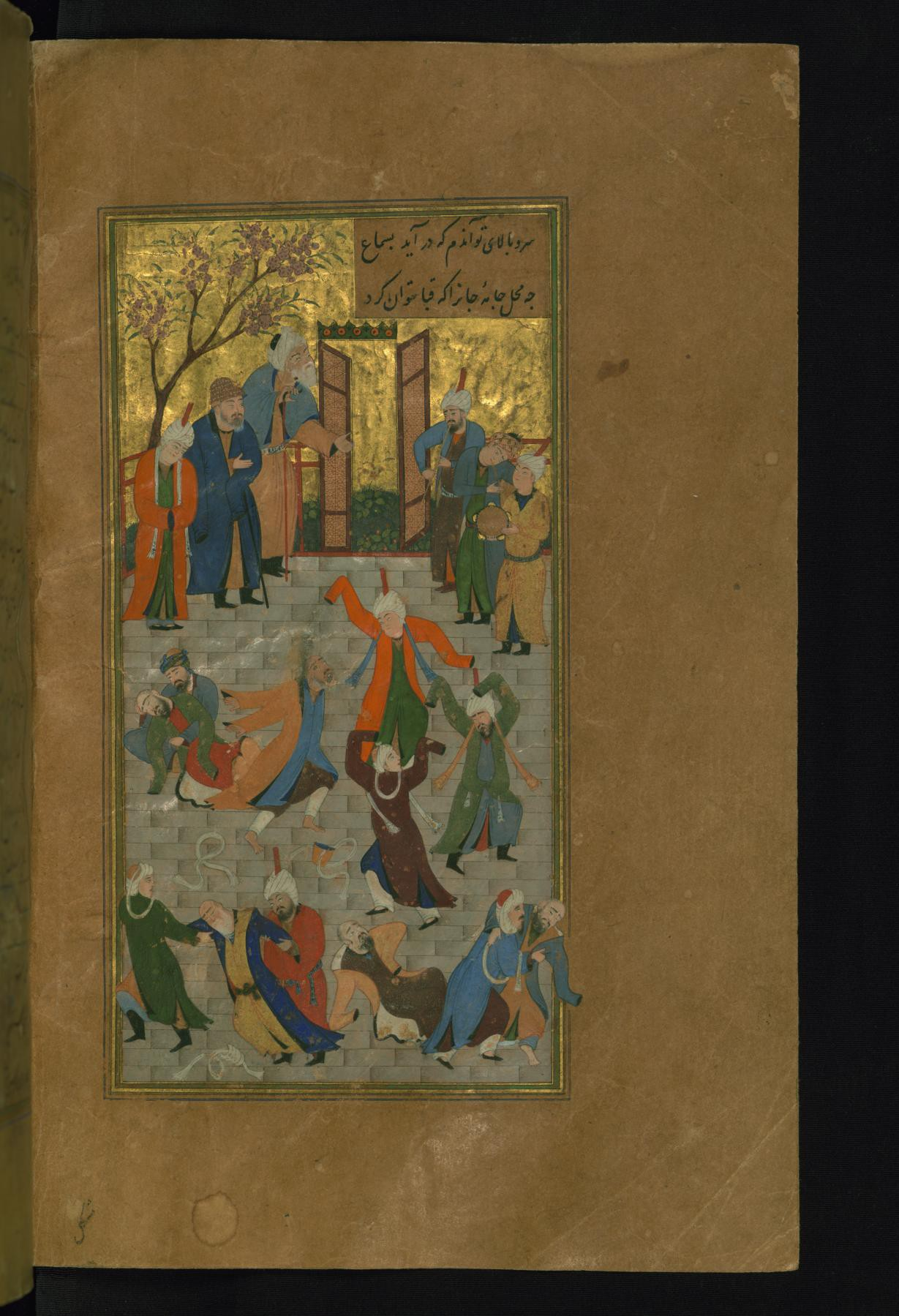 This illustration from Walters manuscript W.628 shows Sufis participating in musical ceremonies, known as sama (hearing or listening).